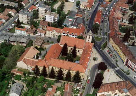 Vasvár, Hungary, convent